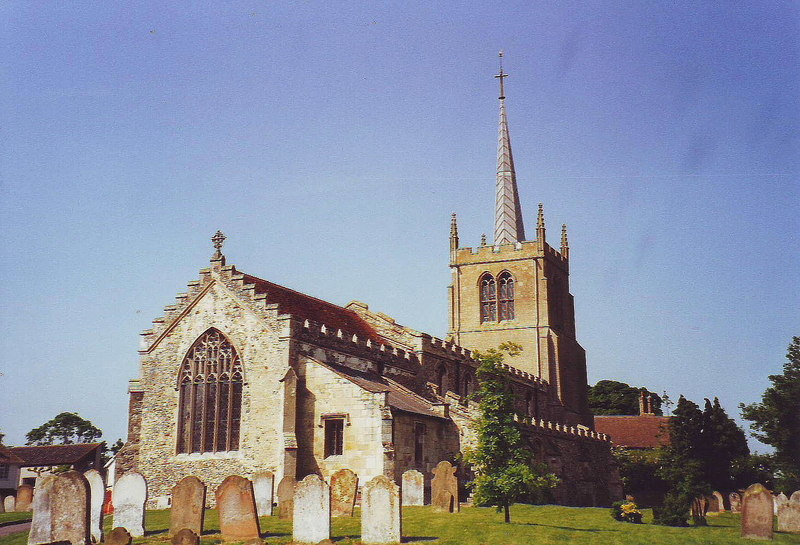 St. Mary's, Guilden Morden, Cambs., near to Guilden Morden, Cambridgeshire, Great Britain.